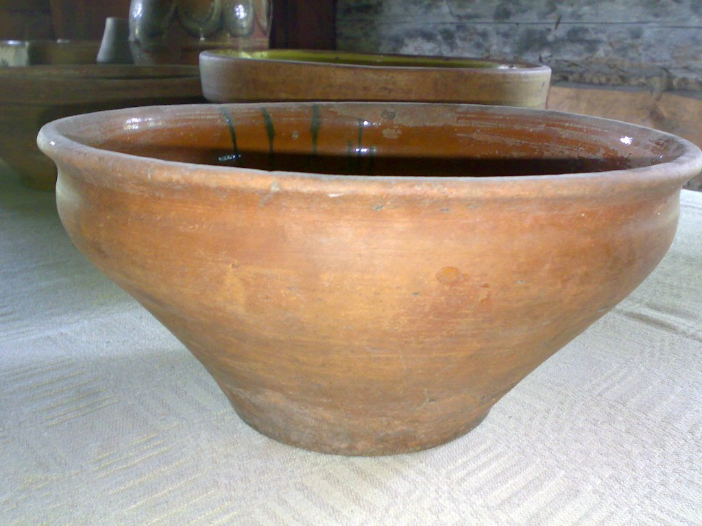 Latgale pottery.